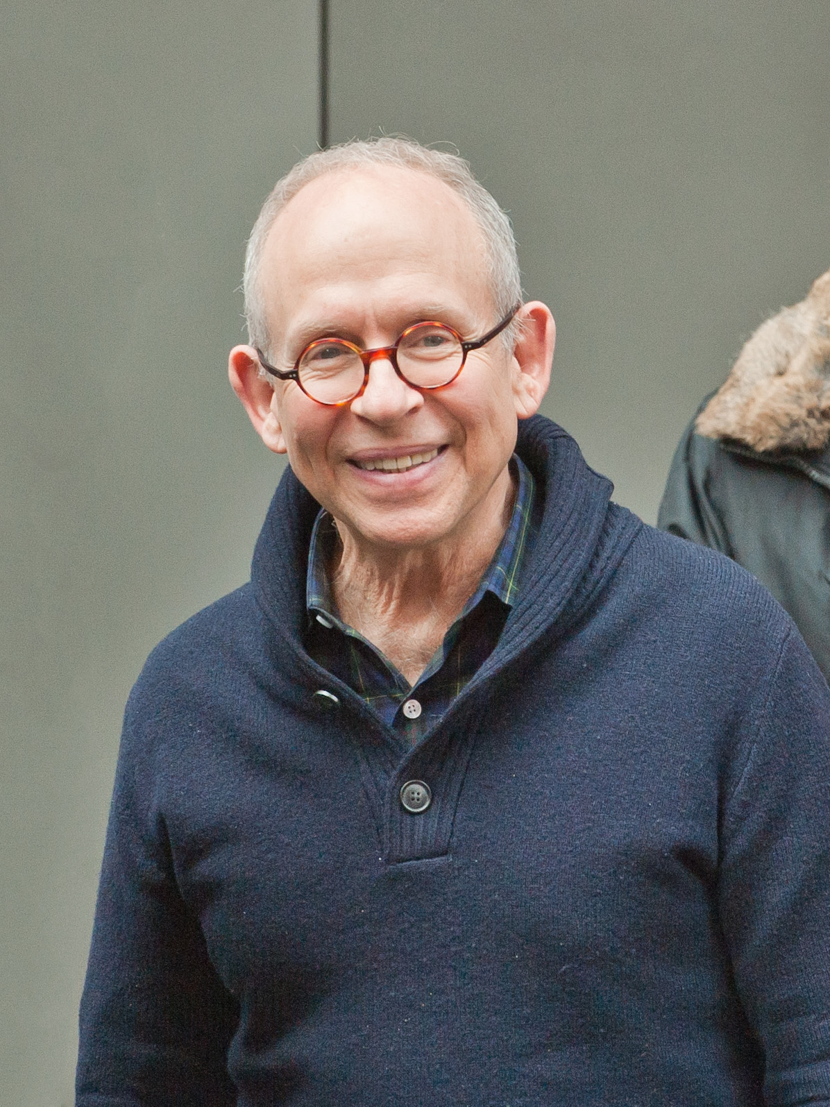 Bob Balaban arriving for the press conference of THE MONUMENTS MEN at the Berlinale 2014